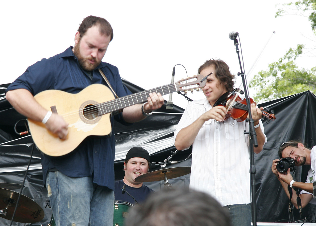 Zac Brown Band